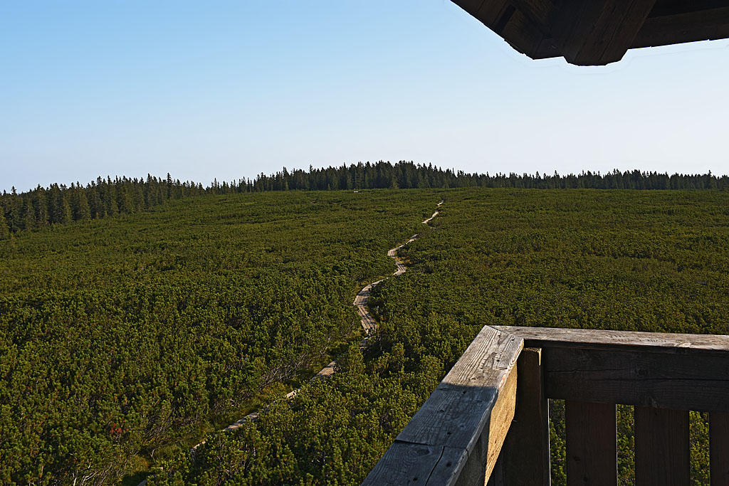 Lovrenška jezera, the overgrown high plateau, with some 20 ponds.